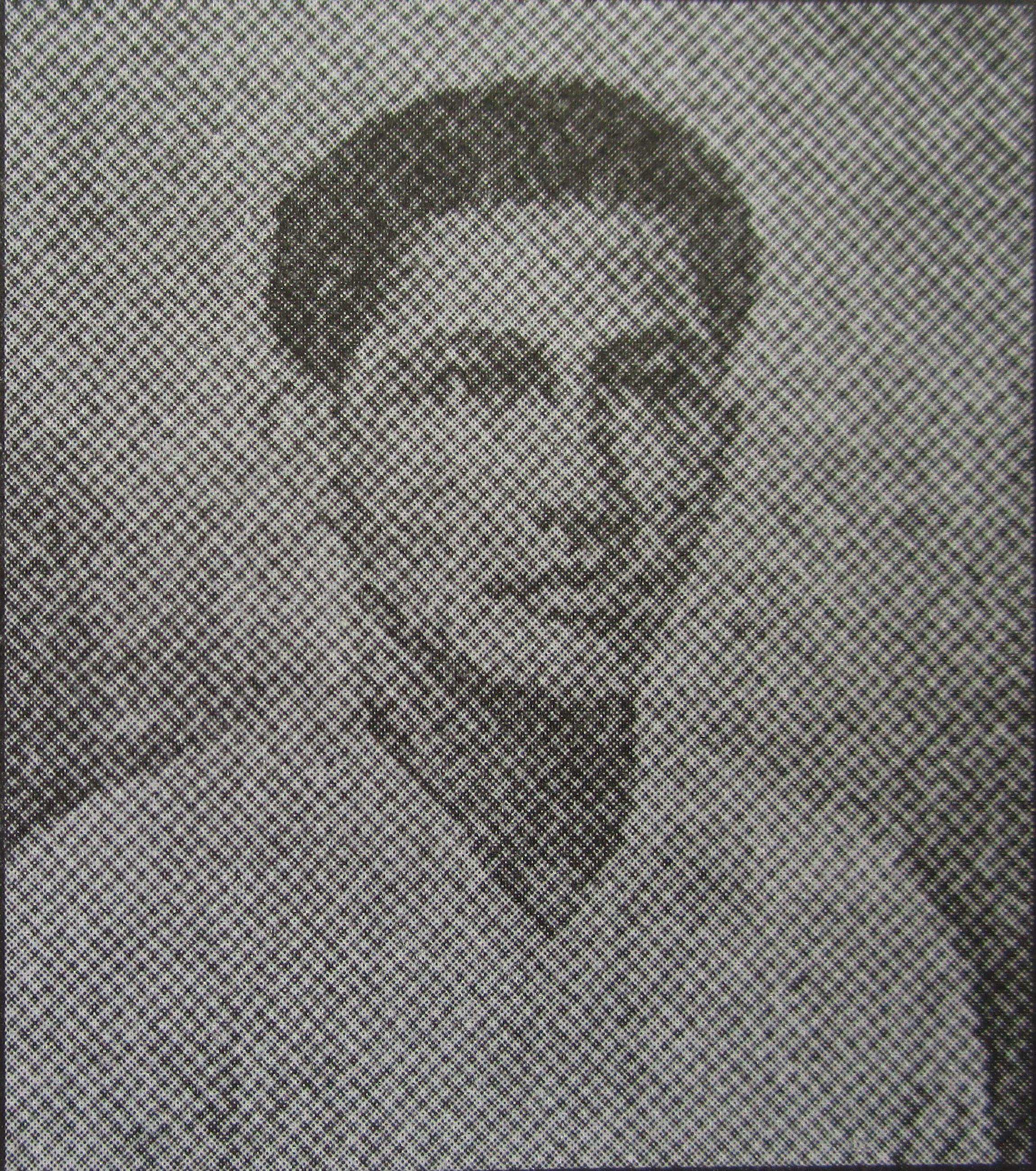 Debprasad Gupta